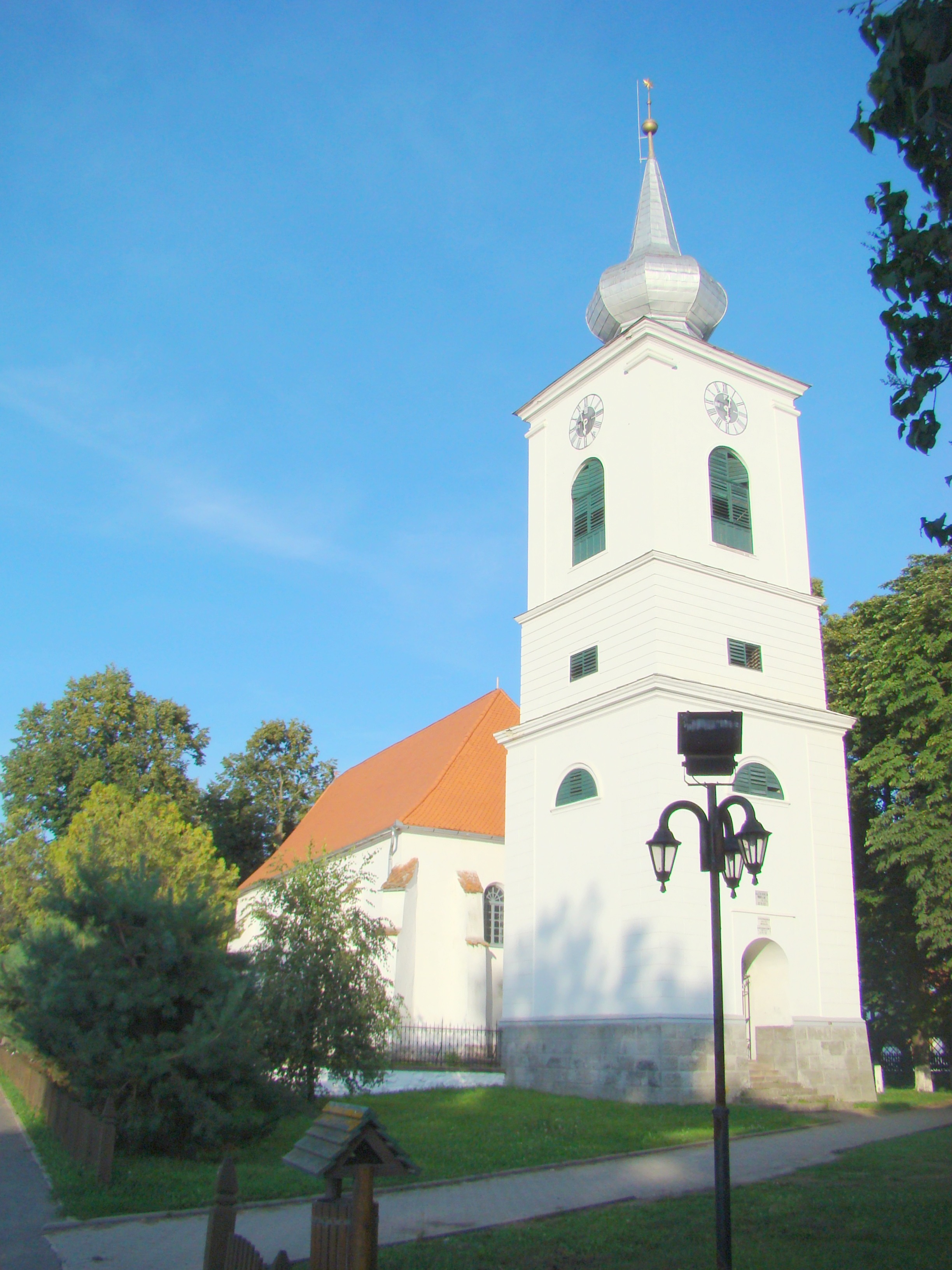 Reformed church in Ozun, Covasna County, Romania